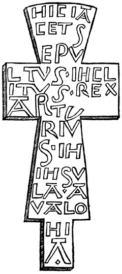 "Leaden cross found in Arthur's grave, Glastonbury" is the caption to the reproduction of the same image as found in Lacy ed., The New Arthurian Encyclopedia (1986), "Glastonbury", p.240. Inscription reads:"HIC IACET SEPVLTVS INCLITVS REX ARTVRIVS IN INSVLA AVALONIA". The illustration is in Camden's Britannia (1607) but lacking in other dated editions. In the book, the immediately preceding text reads: "Sed ecce crucem illam et inscriptionem" (Englished as: "But behold the said Crosse and Epitaph therein.")